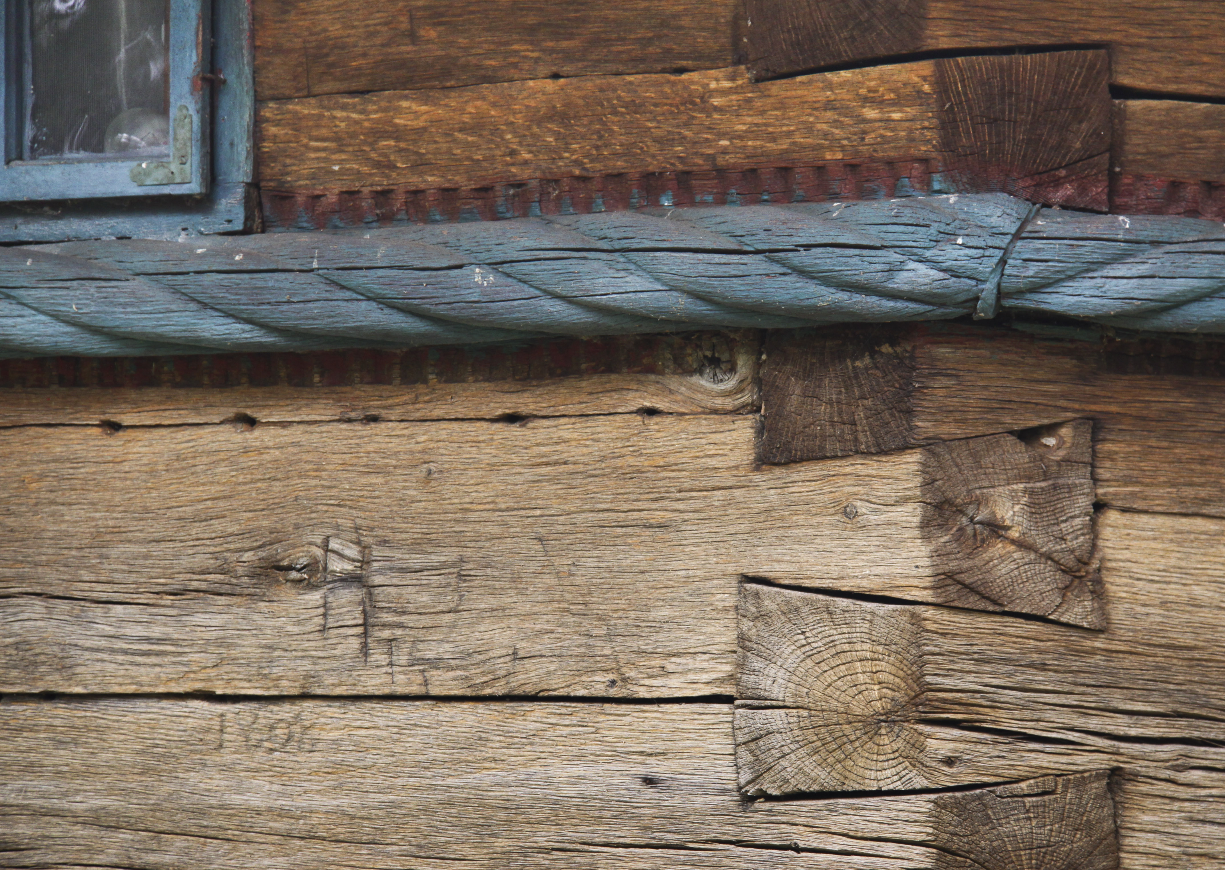 Cârceşti, Argeş county, Romania: the wooden church.